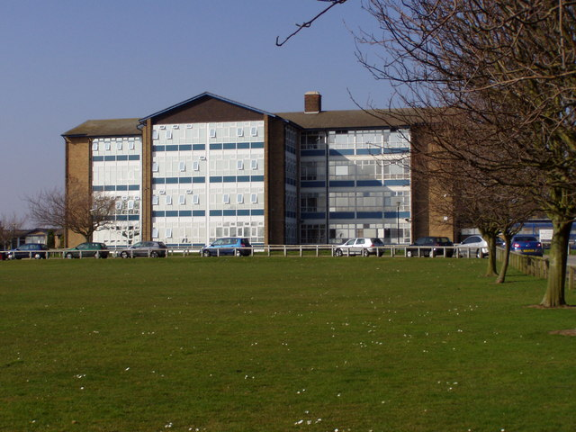 Headlands School and Science College, Bridlington, East Riding of Yorkshire, England.